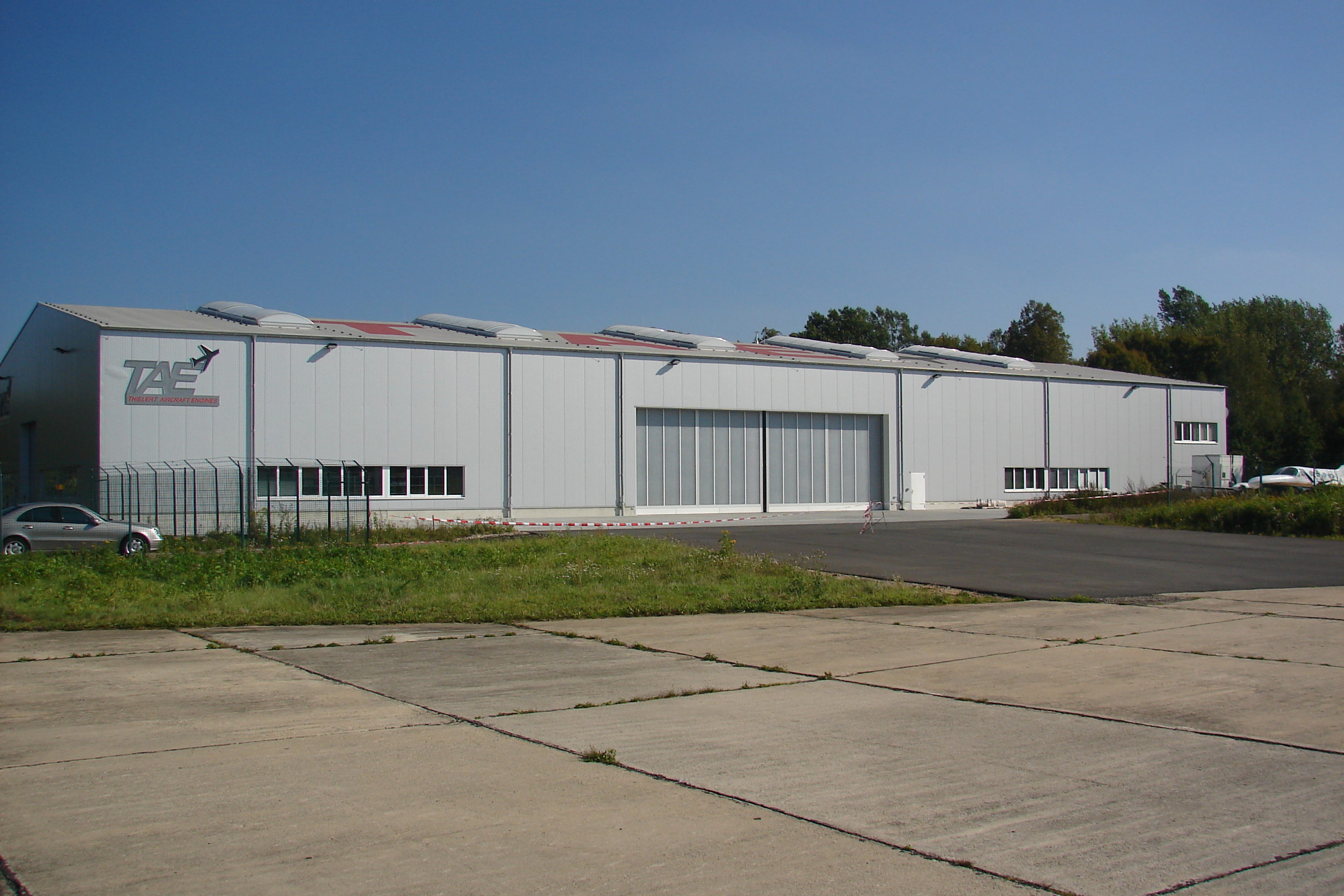 Thielert Aircraft Engines Factory on Altenburg-Nobitz Airport